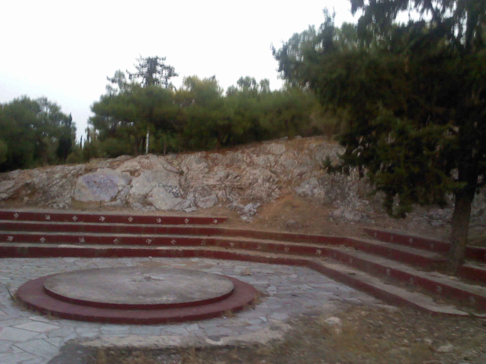 Alsos Bokou Nikaia